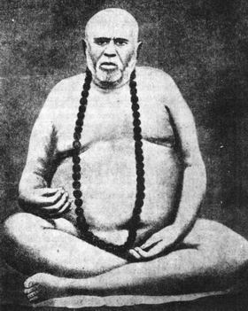 Photo of Trailanga Swami